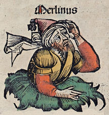 Illustration from the Nuremberg Chronicle